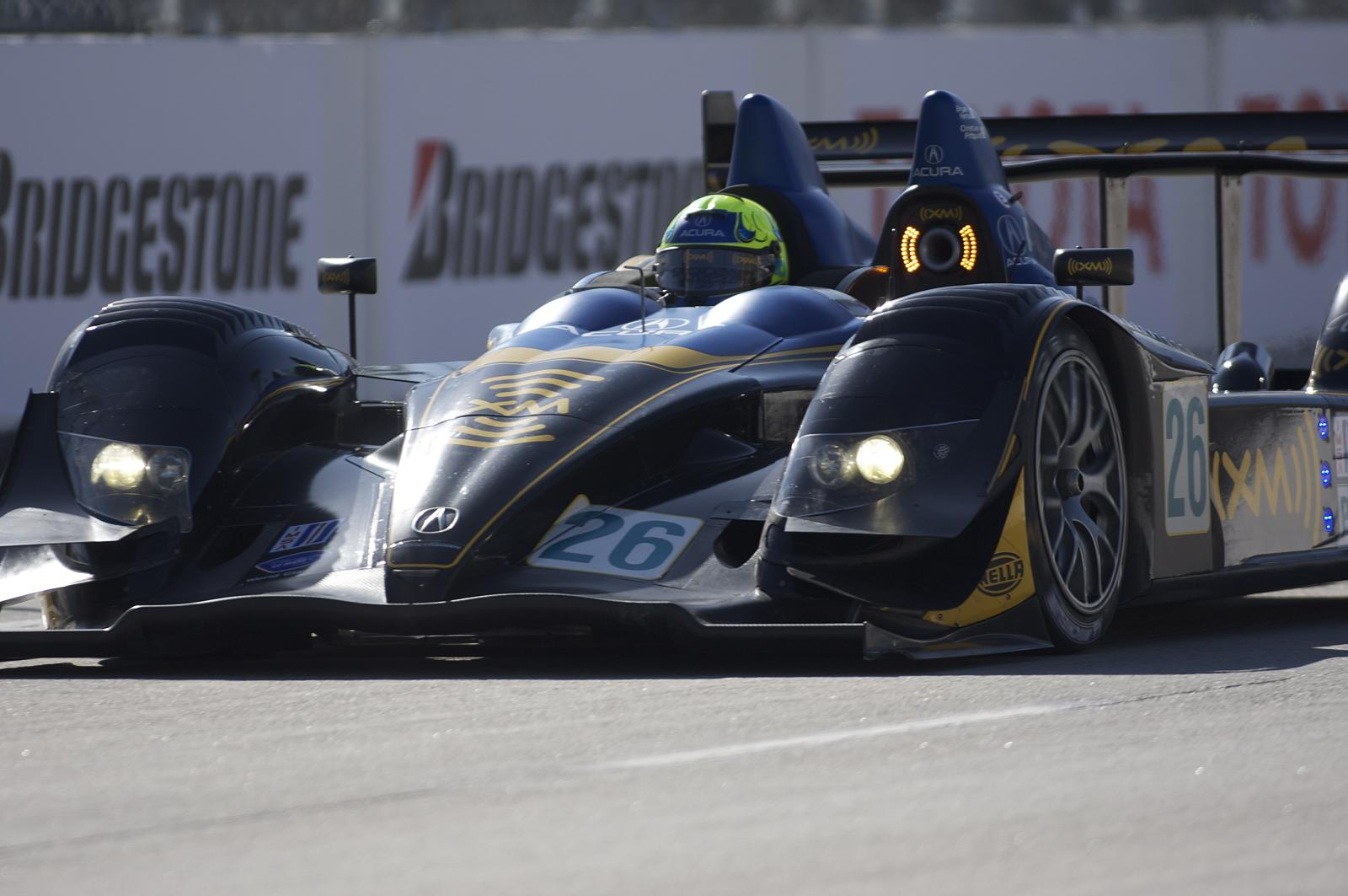 Christian Fittipaldi driving Andretti Green Racing's Acura ARX-01B